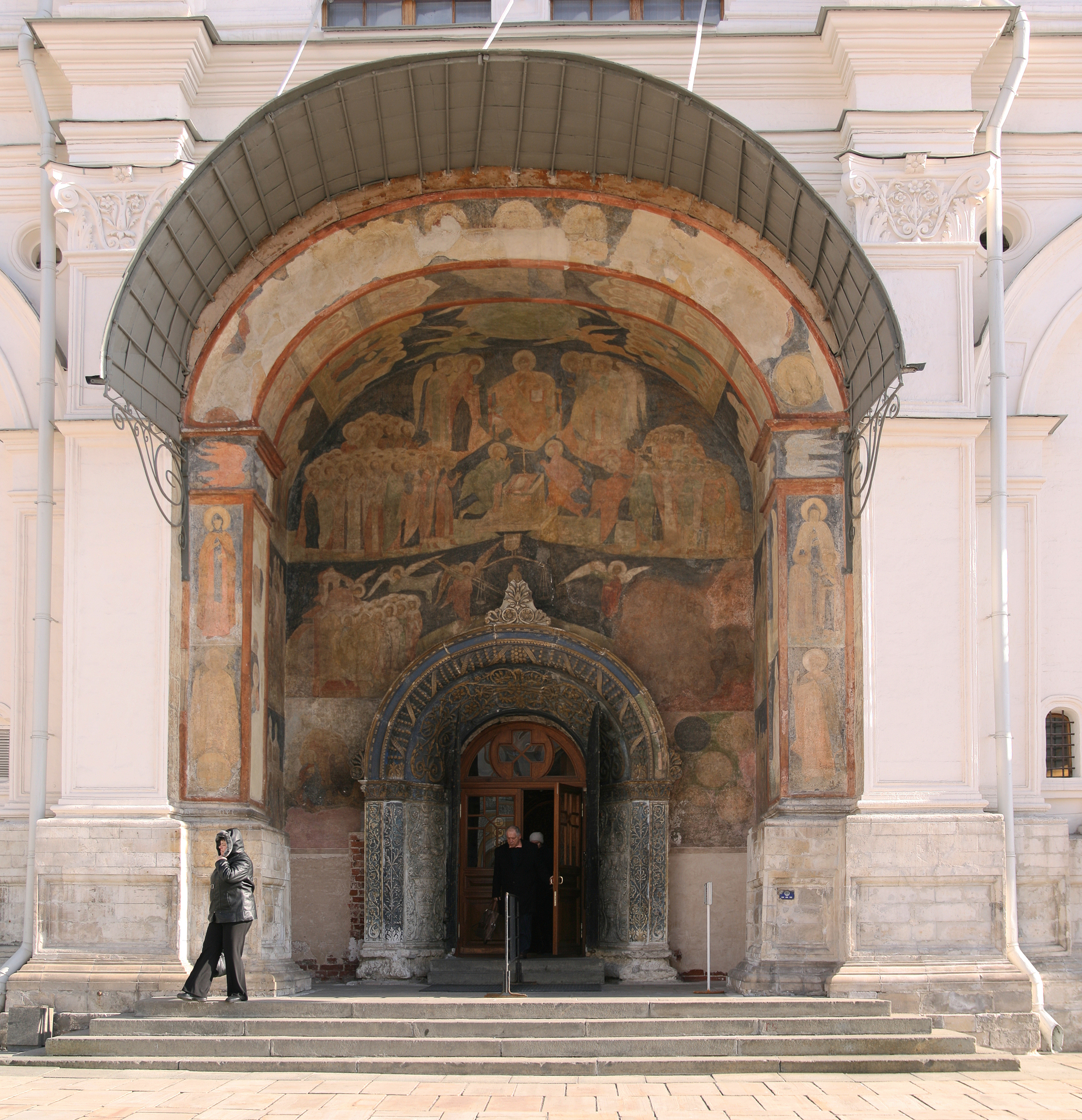 The main portal of the Cathedral of the Archangel, Moscow Kremlin